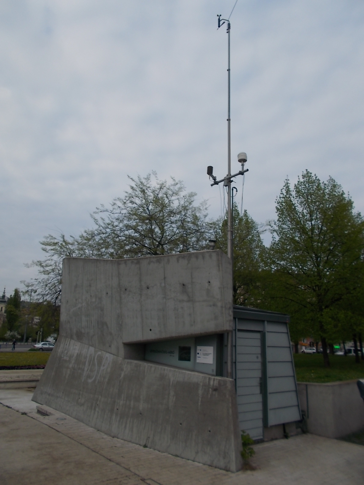 Automatic air quality monitoring station, owned by Air Quality Reference Centre (LRK) a section of the Meteorological information services (OMSZ). - Budapest District IX, Budapest.